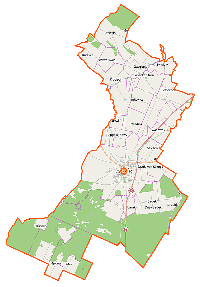 Map of Gmina Szydłowiec, Poland This map of Szydłowiec (gmina) was created from OpenStreetMap project data, collected by the community. This map may be incomplete, and may contain errors. Don't rely solely on it for navigation. Border coordinates51.346520.7158←↕→20.945151.1406